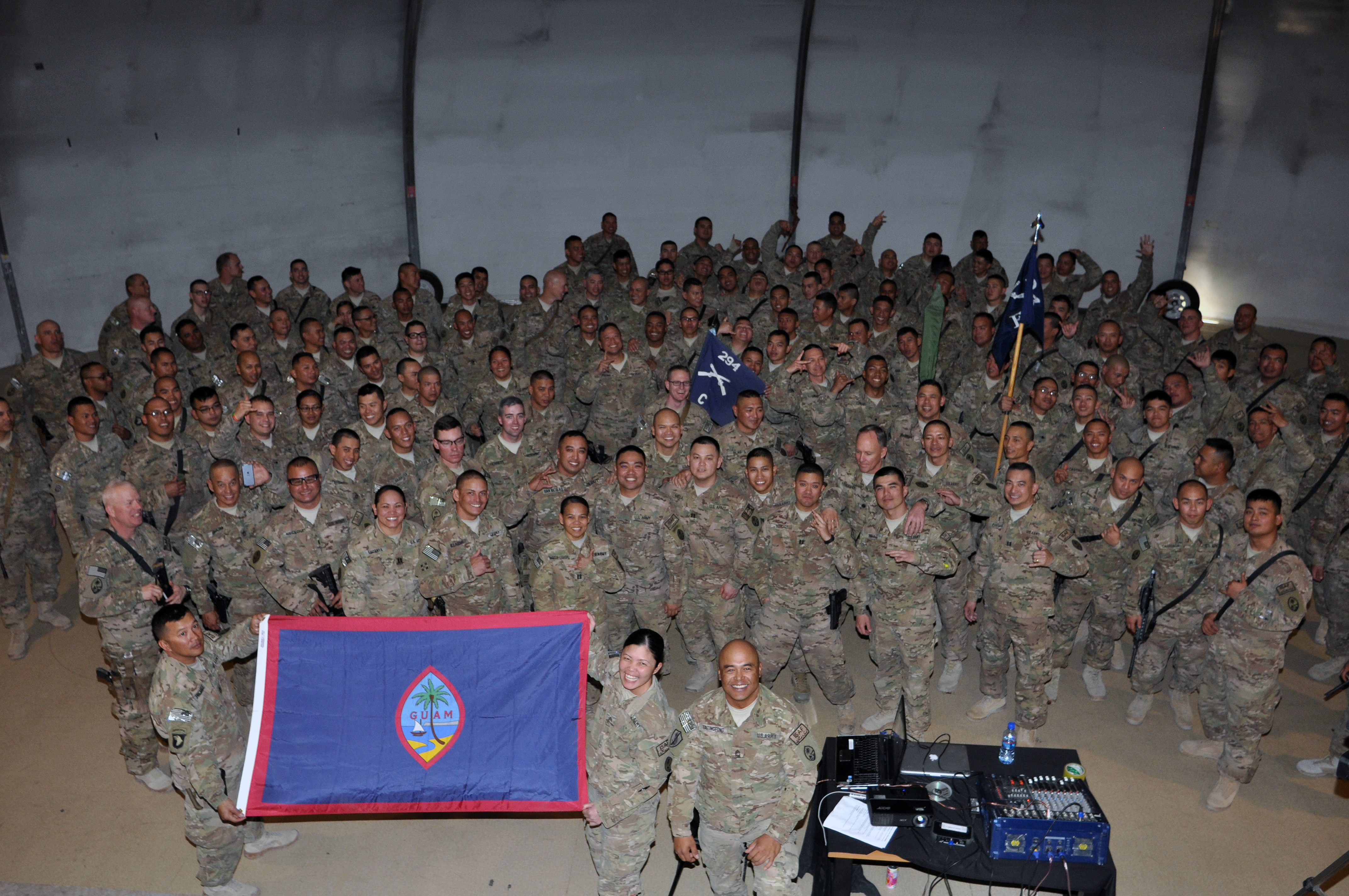 U.S. Soldiers assigned to the 1st Battalion, 294th Infantry Regiment, Guam Army National Guard gather at the Morale, Welfare and Recreation activity center at Kabul International Airport North in Kabul, Afghanistan, Dec. 26, 2013, to sing "Fanohge Chamorro," Guam's national anthem, in a dedication to two fallen heroes.